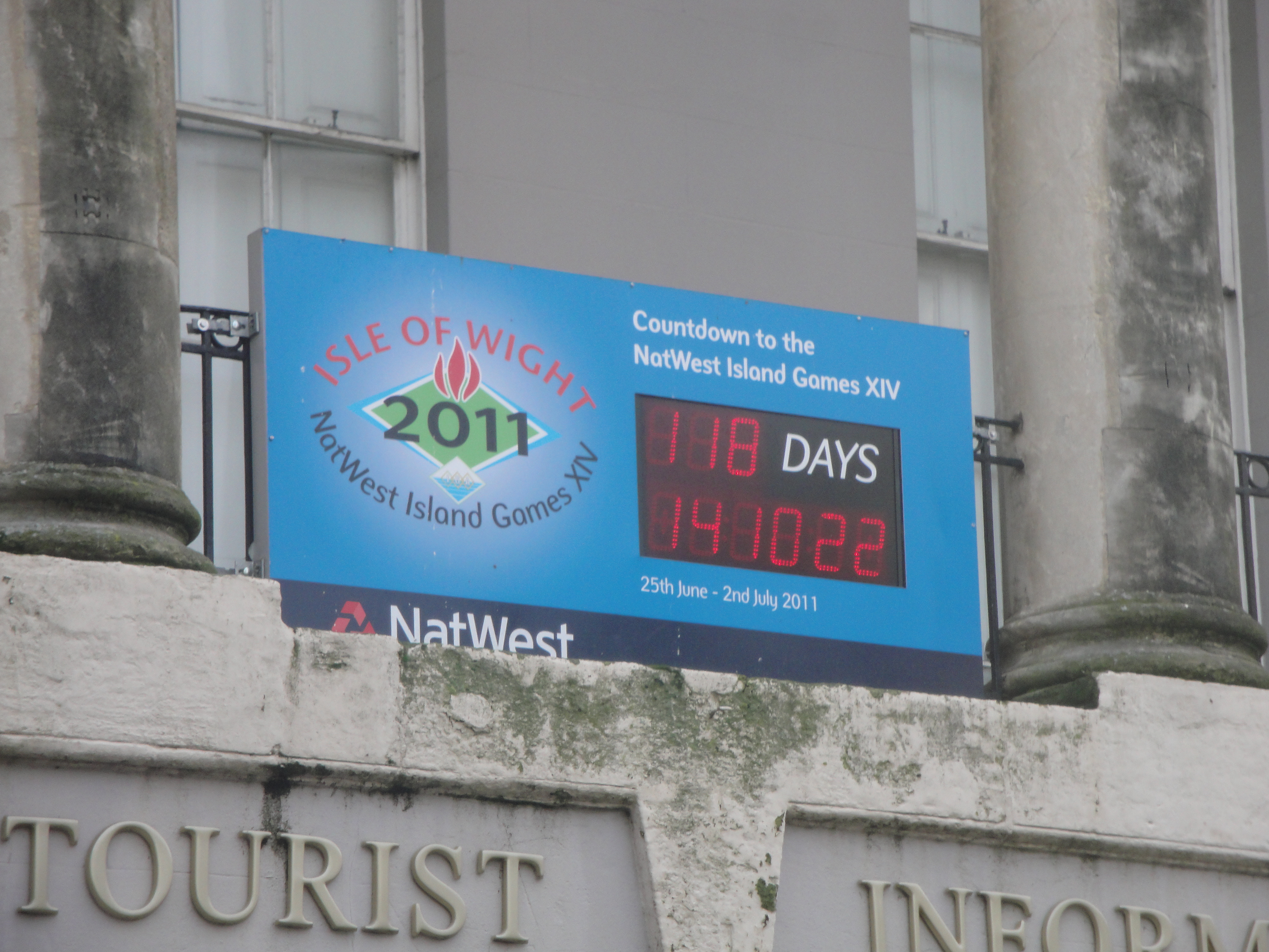 The countdown clock on the Guildhall, on the High Street, Newport, Isle of Wight for the Island Games in June 2011, which this year is being hosted on the Isle of Wight. At the time of photographing you can actually see that the countdown timer is an hour out due to the clocks going back, however this wasn't really an issue as the clocks went forward again before the event in March.